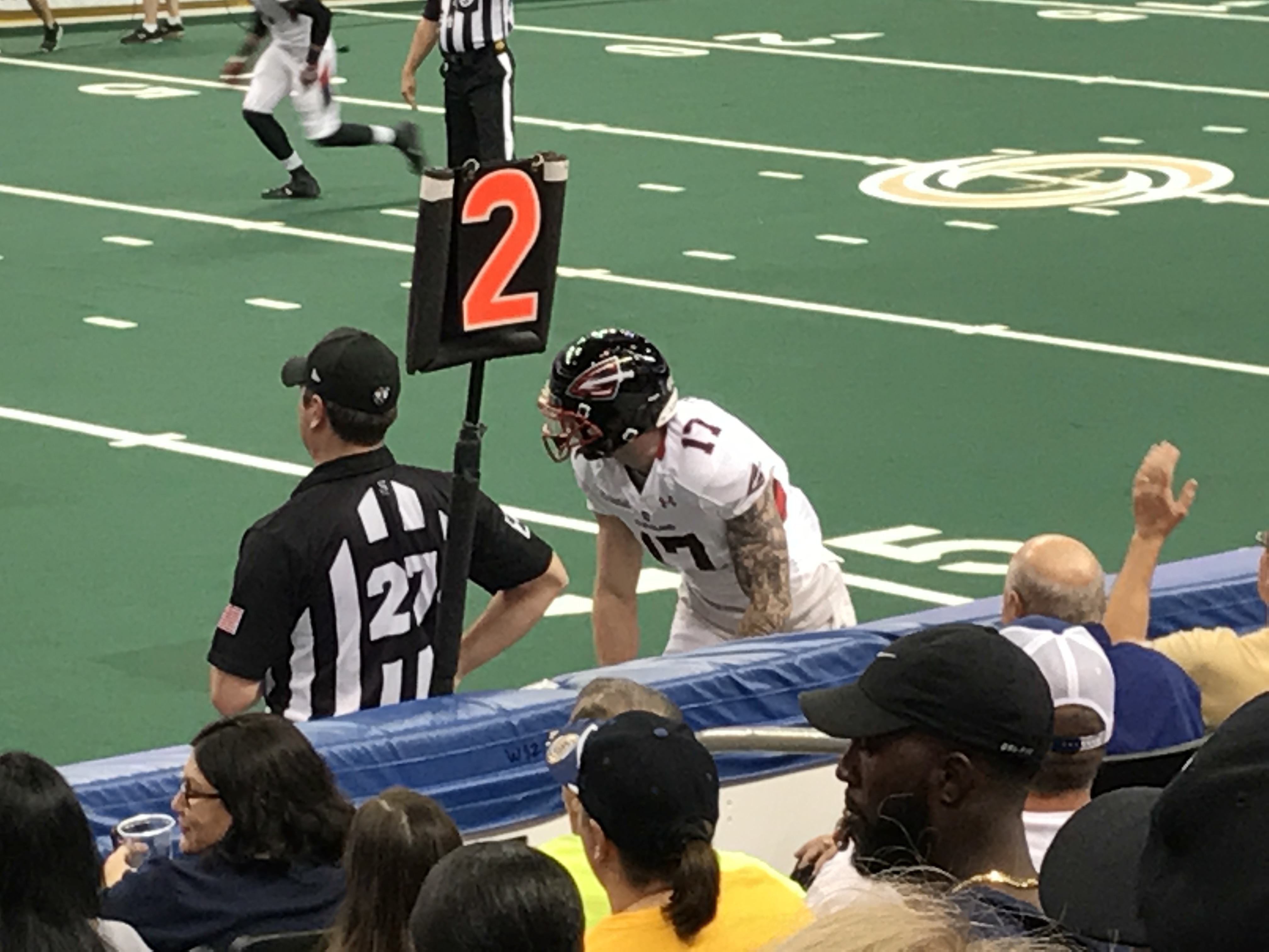 Collin Taylor at the line of scrimmage